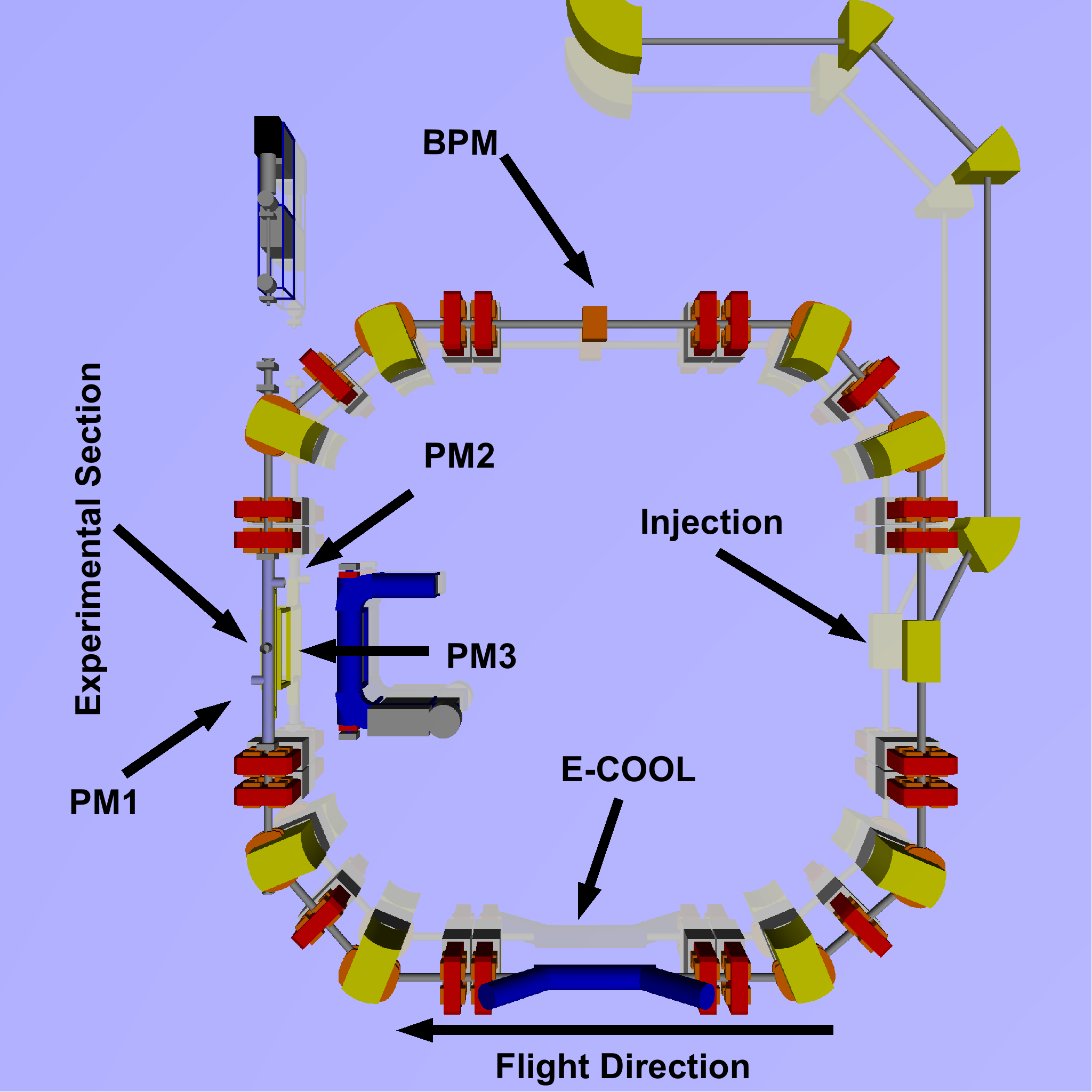 3D impression of the test storage ring TSR at the Max Planck Institut für Kernphysik (Heidelberg, Germany) as it was used for time dilation experiments. BPM - Beam profile monitor E-COOL - Electron cooler PM1 - Postion of photomultiplier 1 PM2 - Postion of photomultiplier 2 PM3 - Postion of photomultiplier 3